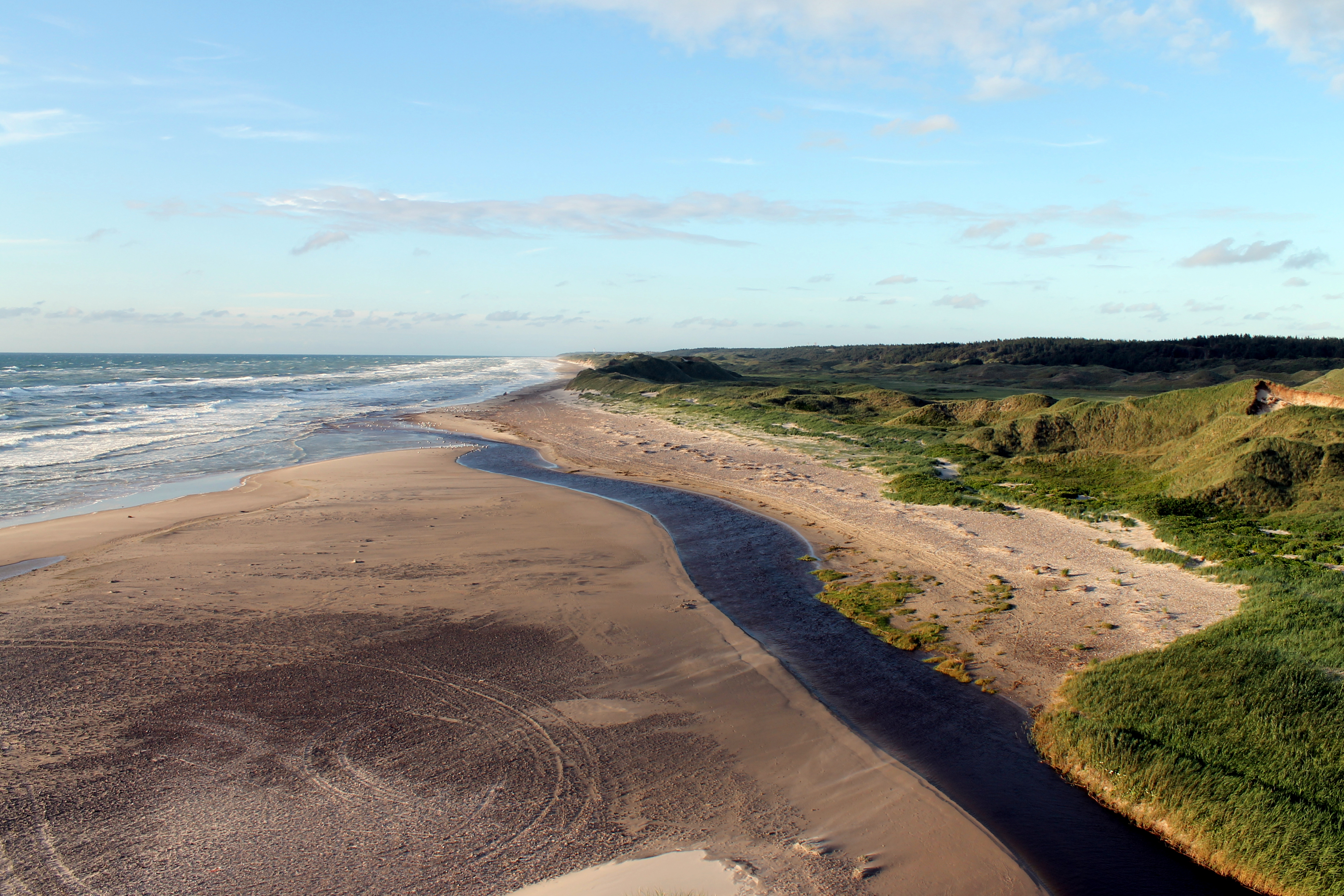 Liver Å river in Denmark, the mouth into Skagerrak (protected area)